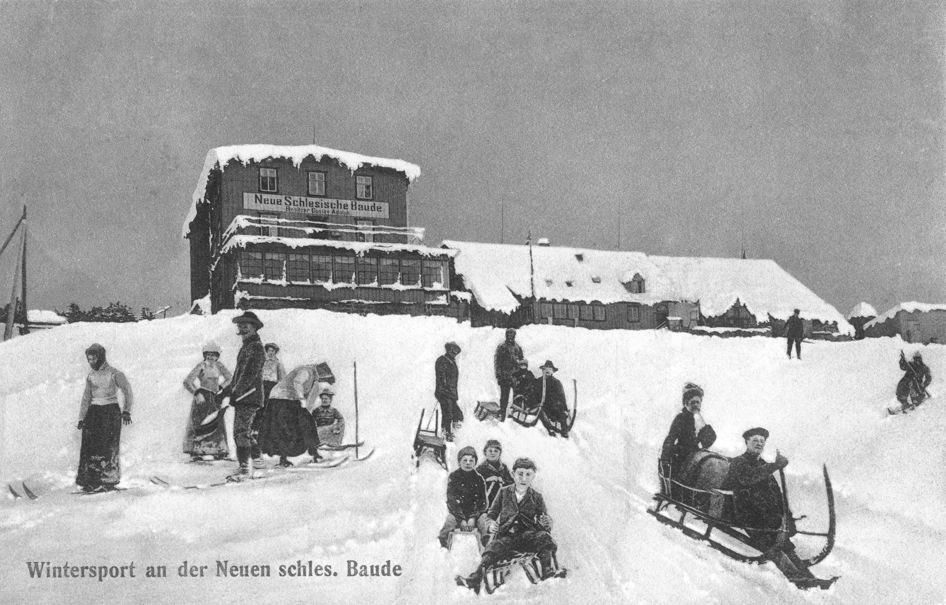 Hala Szrenicka Hut, Karkonosze, Germany now Poland.